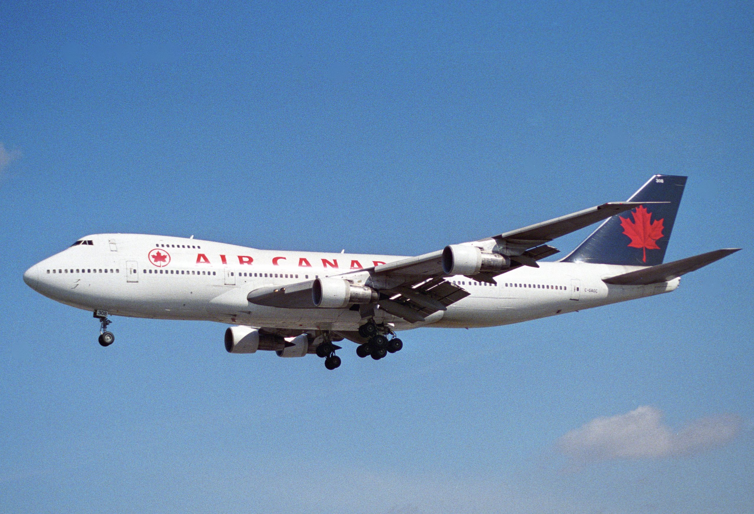 This Boeing 747-238B (M) took its first flight on October 4, 1977... 27/10/1977 Qantas VH-ECA 11/08/1988 Air Canada C-GAGC stored at Mojave 29/01/99